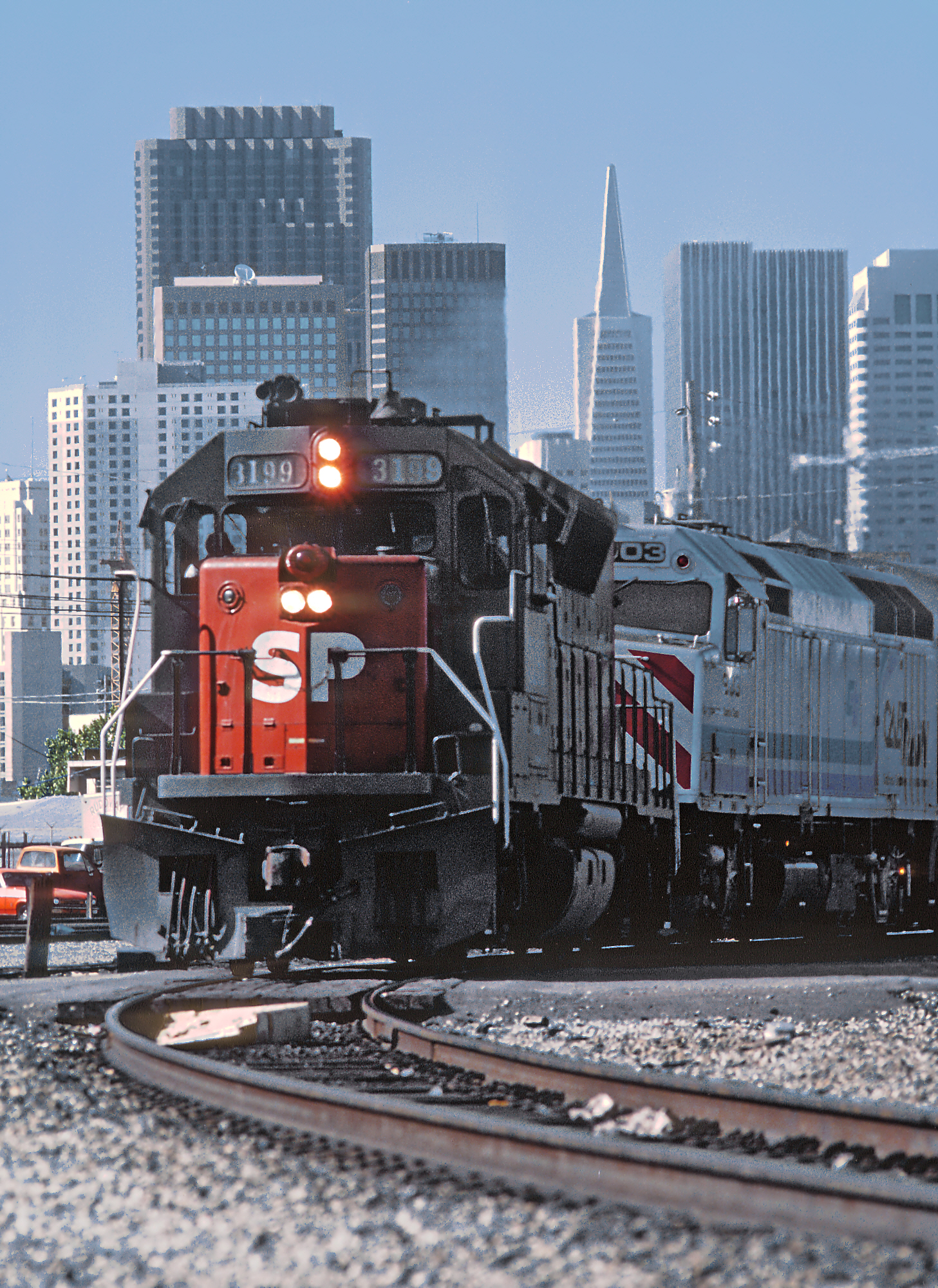 A telephoto shot of SP 3199 at King St. and 7th St. in San Francisco, CA in August 1985. This file comes from the Roger Puta collection, which passed to Mel Finzer. They were scanned and posted by Marty Bernard, are in the Public Domain. Attribution to "Roger Puta" is not required for a PD image, but should be done as a matter of courtesy to a major Commons contributor. Mel Finzer, the heirs of this work's copyright holder (usually the creator) have released it into the public domain. This applies worldwide. In some countries this may not be legally possible; if so: The heirs of the creator grant anyone the right to use this work for any purpose, without any conditions, unless such conditions are required by law. See This work is free and may be used by anyone for any purpose. If you wish to use this content, you do not need to request permission as long as you follow any licensing requirements mentioned on this page.